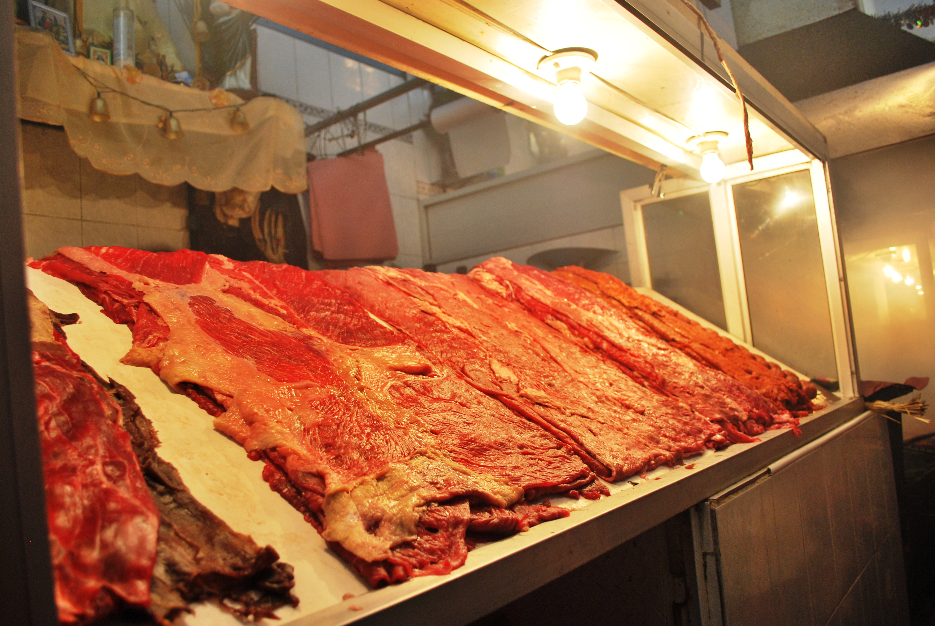 Tasajo, a type of beef, for sale at the 20 de noviembre market in Oaxaca city, Mexico